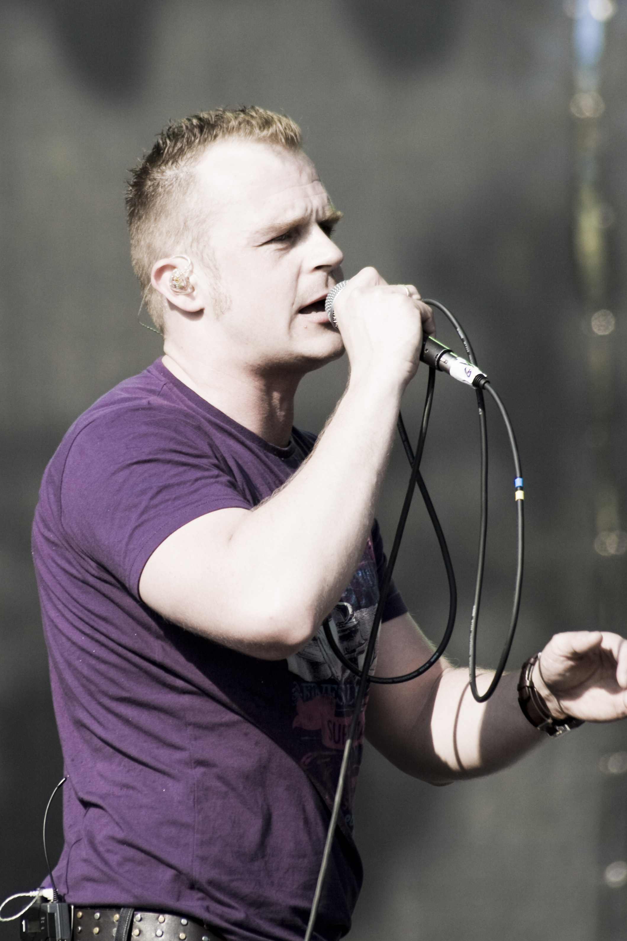 Piotr Rogucki - the leader of a band named Coma performing on Szczecin Rock Festival 2009